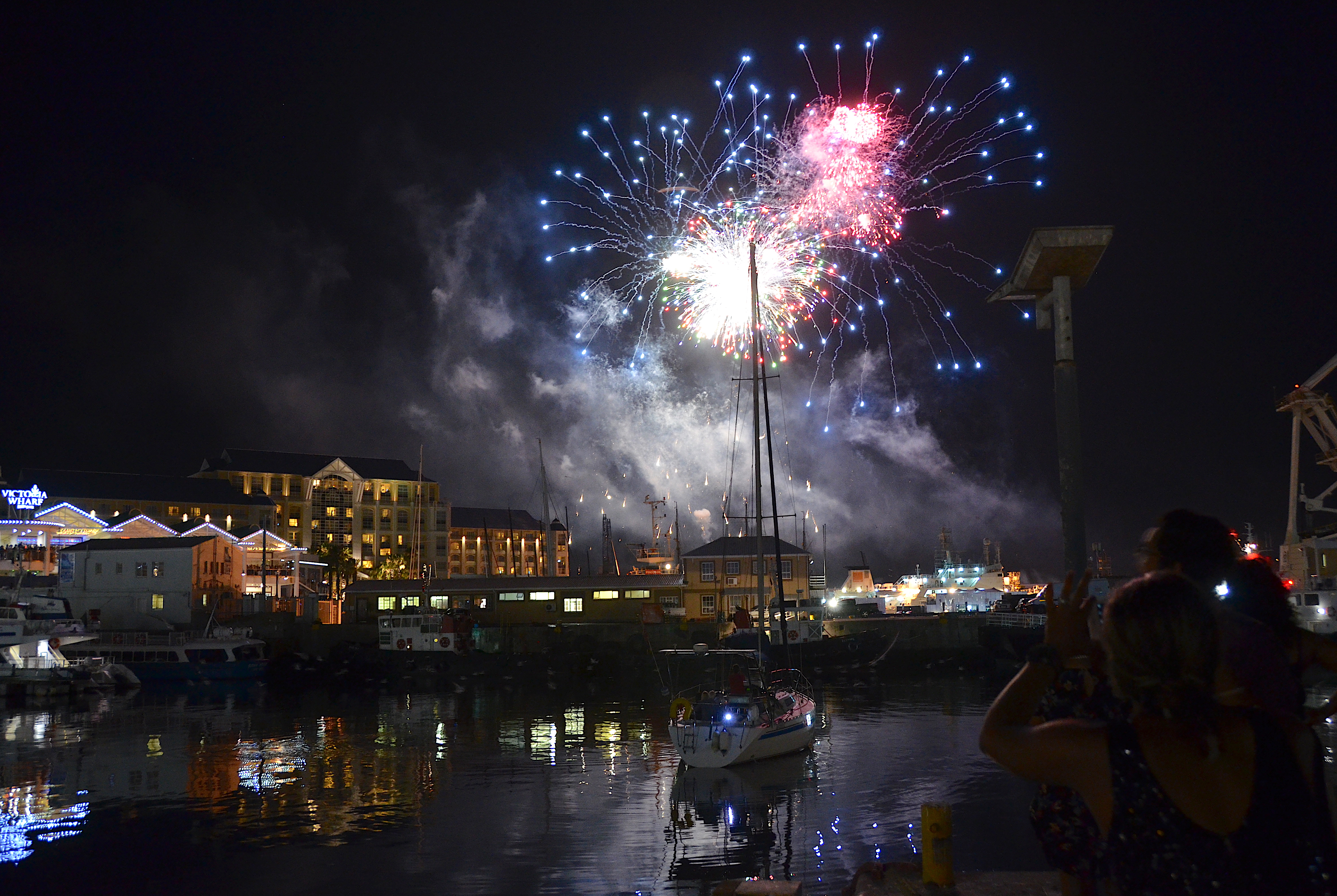 New Year's Eve at V&A Waterfront, Cape Town (2017)